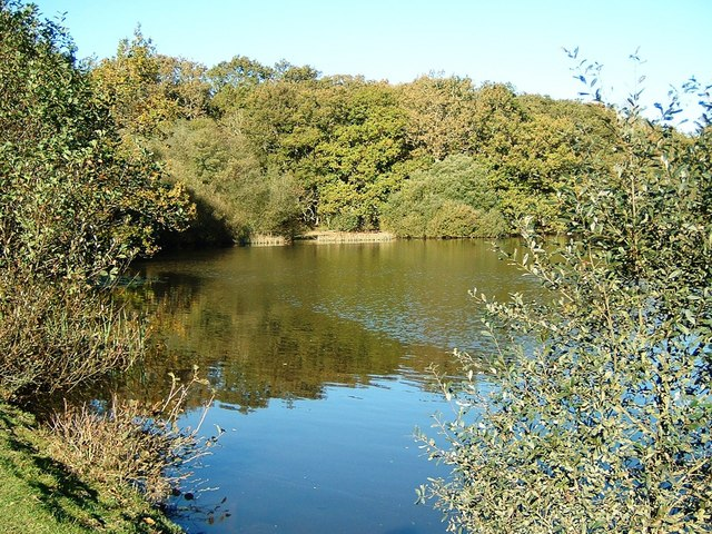 Eyeworth Pond, Fritham A peaceful setting just past Fritham village. A gunpowder factory used to be sited to the left of this picture.